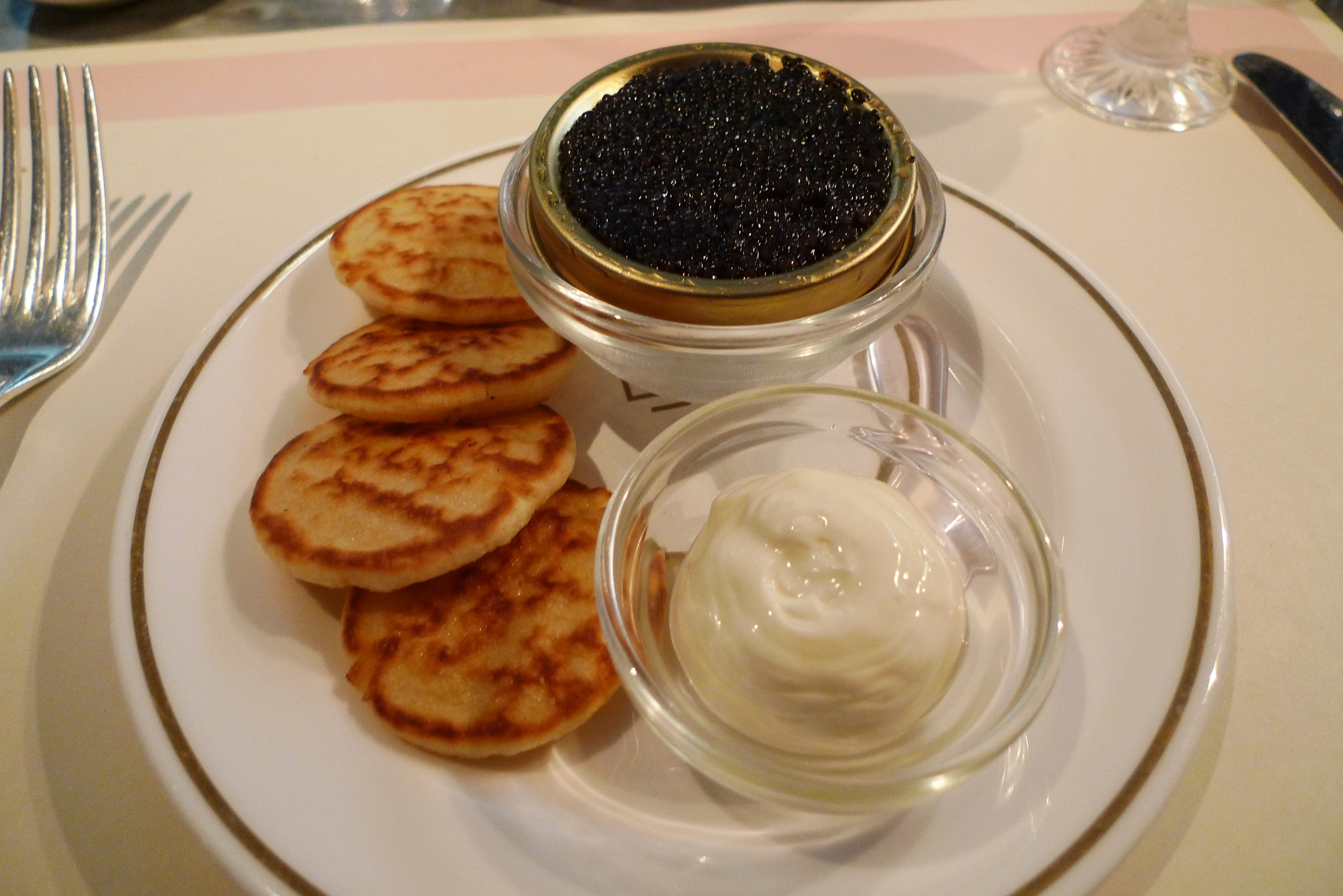 Special caviar lunch menu offer, with 10g caviar, blinis and sour cream. At Bob Bob Ricard, Upper James Street.